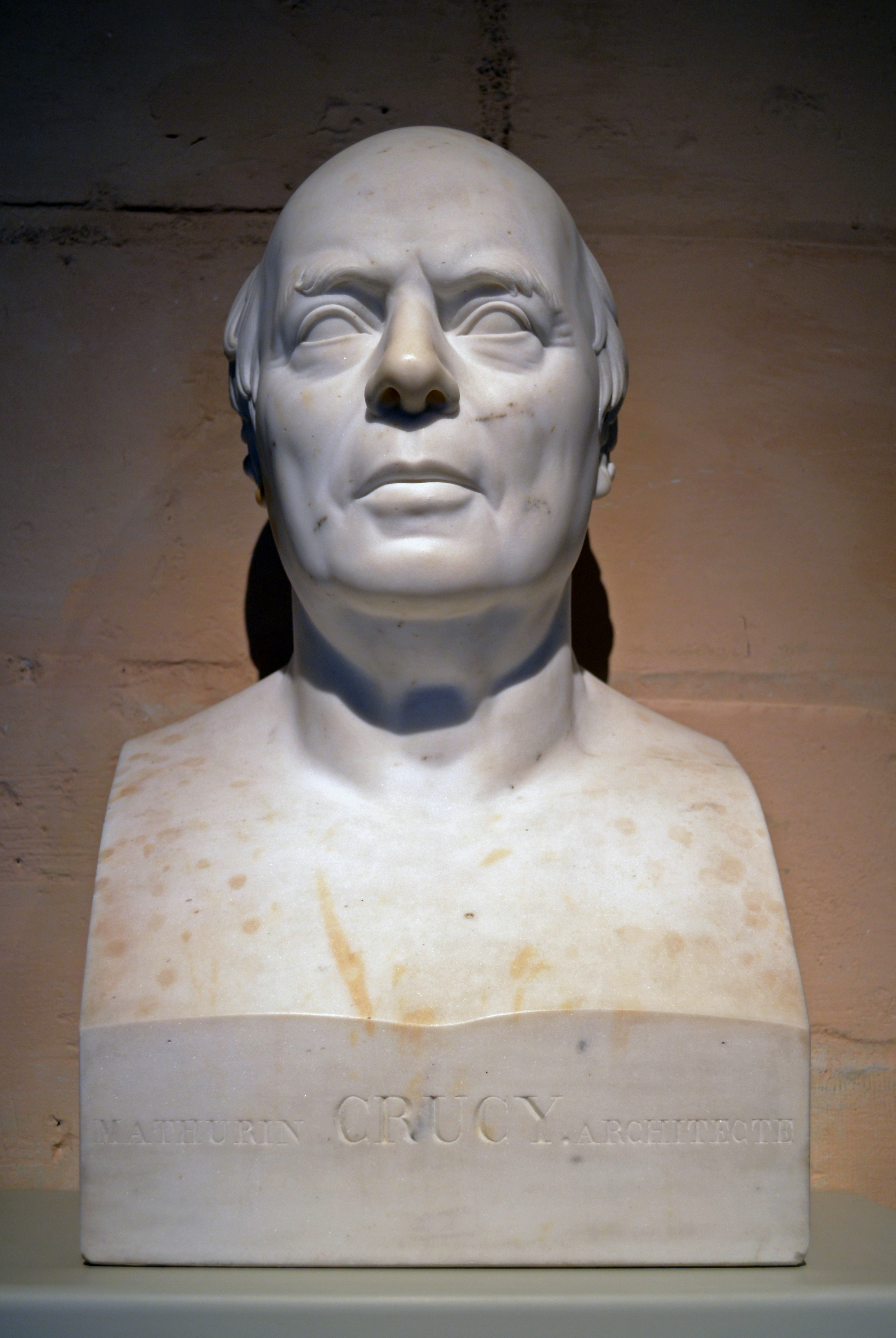 Bust (1834) of the architect Mathurin Crucy by Jean de Bay, fils (1802 - 1862) - Nantes history museum